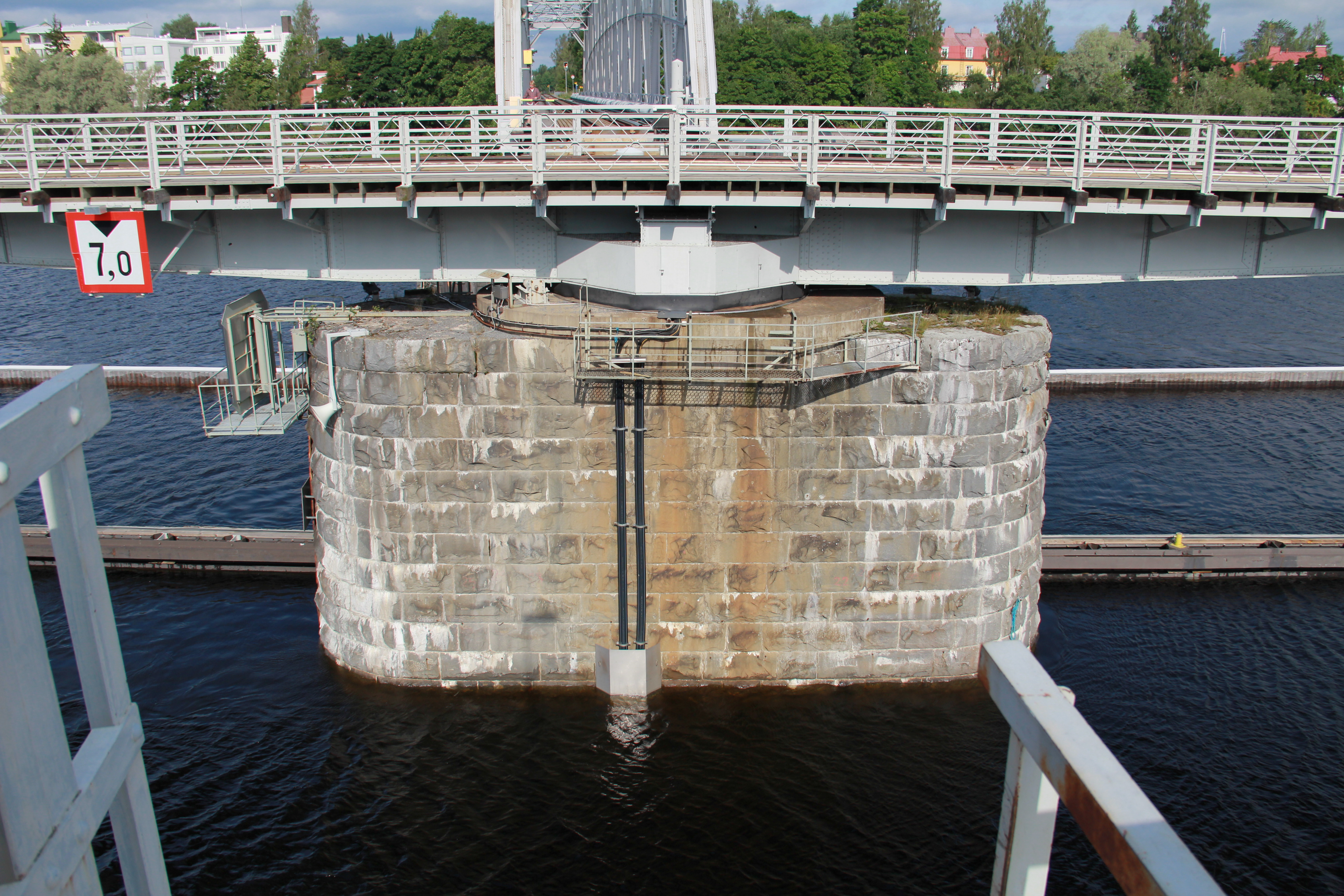 Kyrönsalmi railway bridge open, Savonlinna, Finland. - Photo taken from the bridge.